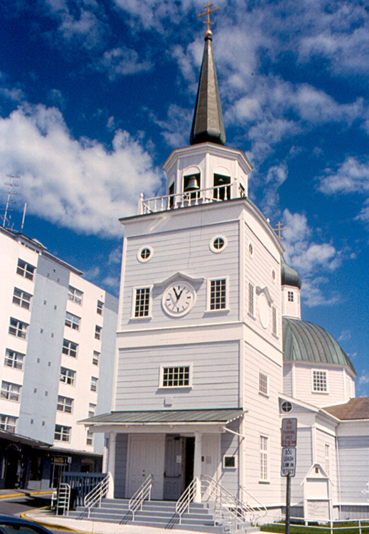 St. Michael's Russian Orthodox Cathedral was built in 1844-1848. It burned down in a fire in 1966. The rebuilt church was consecrated in 1976. It must rank as one of the world's smaller cathedrals. This photo is geotagged. Most Russians left Alaska shortly after the U.S. purchased the territory in 1867. Many native Alaskans had been concerted to the Russian Orthodox church. They comprise most of the Russian Orthodox congregations now.